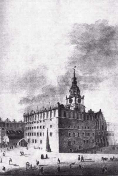 No longer existing Town Hall of Kraków (Cracow)